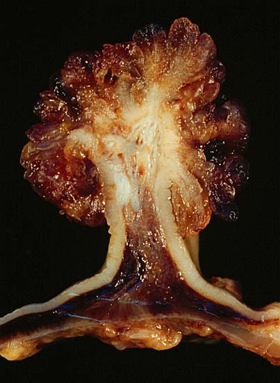 This is the same case presented in Image:Tubulovillous Polyp of the Colon 1.jpg The polyp is shown in longitudinal section. Resembling congealed beef buillon, the hemorrhagic submucosa of the stalk and colon wall proper is set off strikingly from the pale ribbon of mucosa that covers it. Both photos were taken with a Minolta X-370 with 100mm Rokkor bellows lens, illuminated by 4 photofloods, on Kodak Elite ISO 100 daylight slide film, with 80B blue filter to compensate for tungsten color temperature. Photograph by Ed Uthman, MD. Public domain. Posted 28 May 00